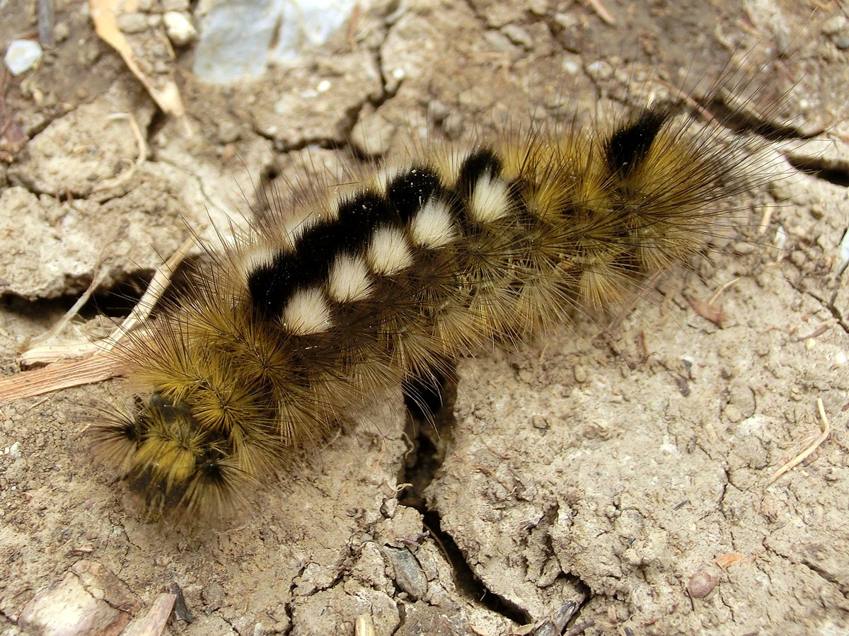 Dicallomera fascelina caterpillar, 4-5 cm long. Mountain meadows N of Bach, ca. 1800 m, Lech valley, Austria. (Identified by Walter Schön at